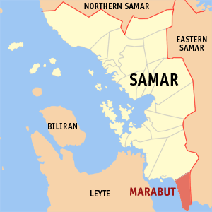 Map of Samar showing the location of Marabut